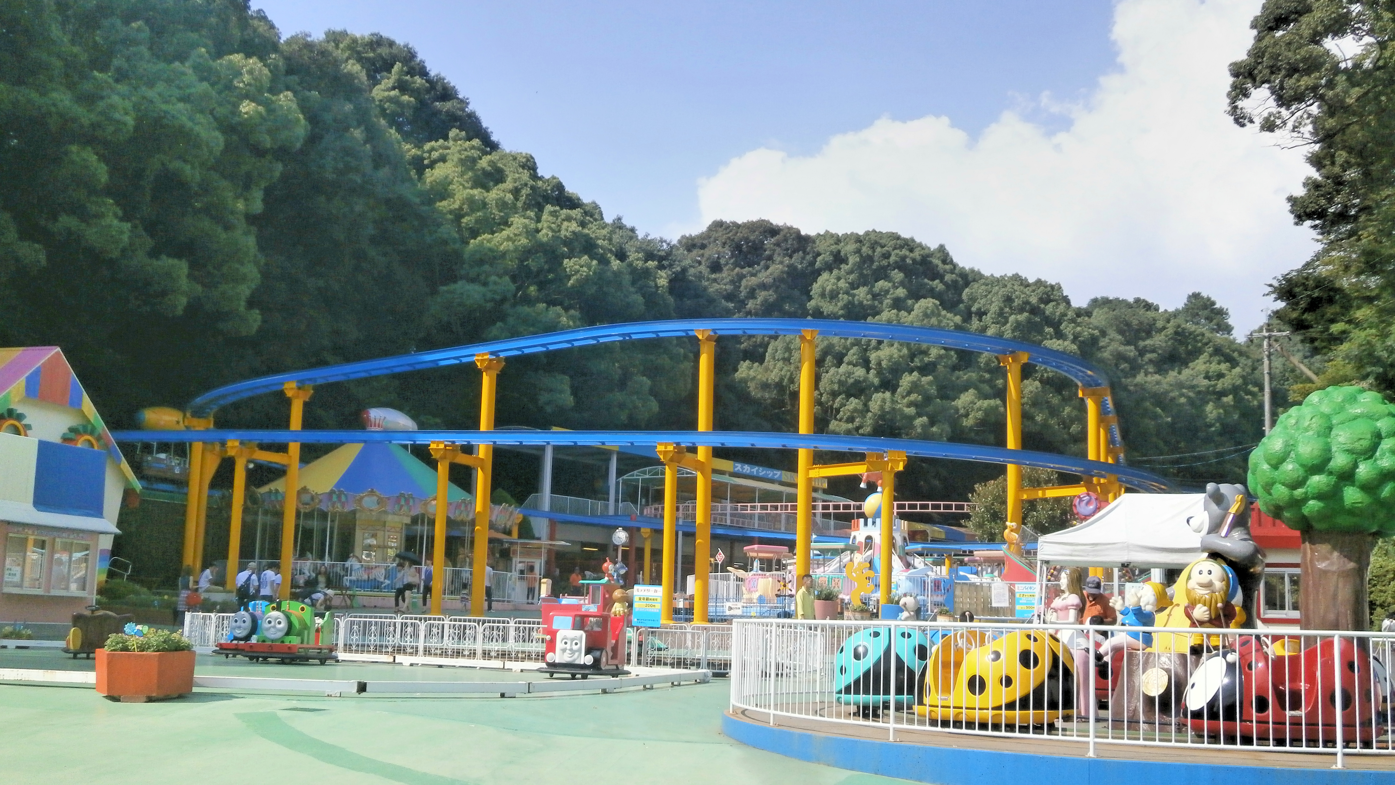 Dazaifu Amuzement Park in Dazaifu, Fukuoka, Japan